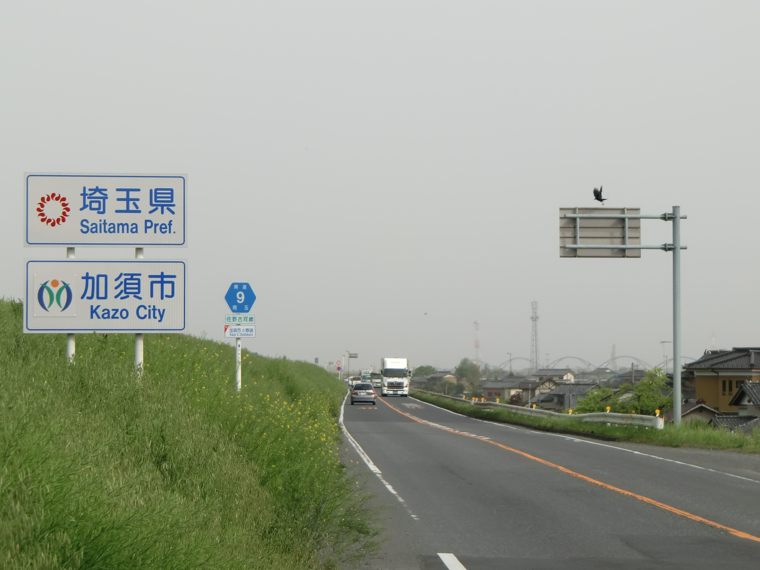 The Saitama Prefectural Road Route 9 in Onofukuro, Kazo City, Saitama Prefecture, Japan, near the border between Saitama and Tochigi Prefectures